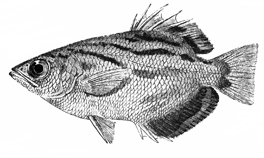 Toxotes blythii (Boulenger, 1892). When the book with this illustration was published, T. blythii was included in T. microlepis (a species that has a more spotted pattern and a more easterly distribution).